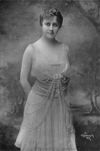 Anna Case = American soprano (1888 - 1984)